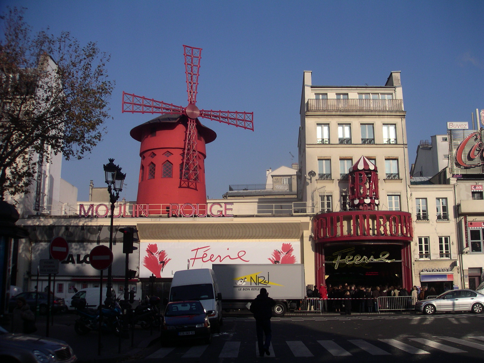 Moulin Rouge Photo Personnelle